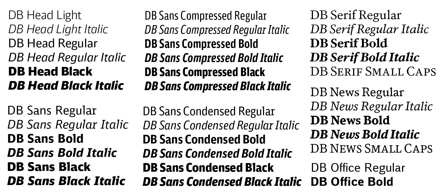 Sample of DB Type superfamily (typeface used by Deutsche Bahn)